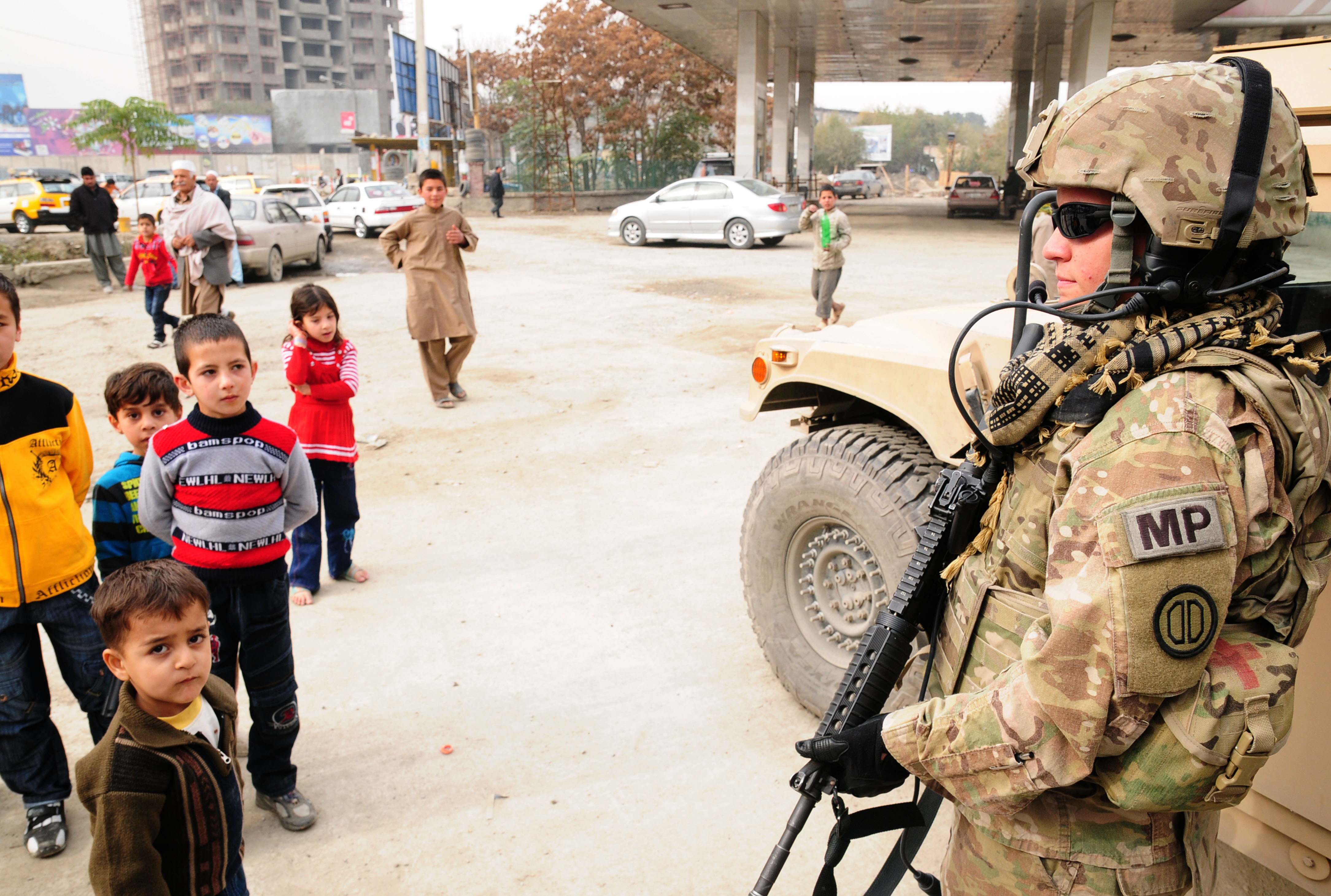 Task Force Spartan 3 soldier Army Spc. Rhesa Schubbe provides security for her team while Afghan National Police officers conduct routine vehicle inspections at Freedom Circle in the heart of downtown Kabul. Spartan 3 is a 15-person team who serve as combat advisors to ANP officers at more than 50 different checkpoints within five Kabul police districts throughout the densely populated city. (Photo ID: 486186)